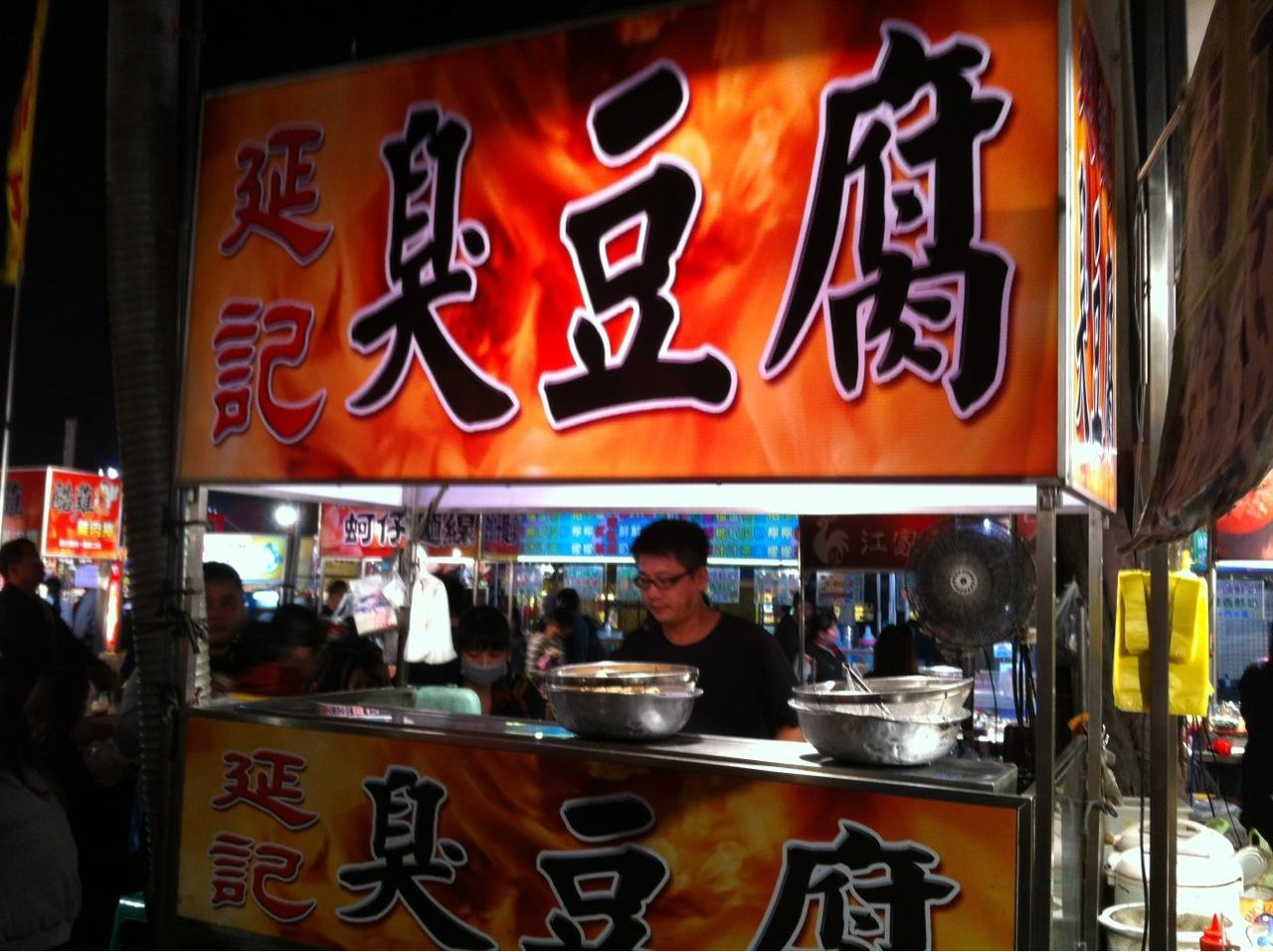 stinky tofu stand